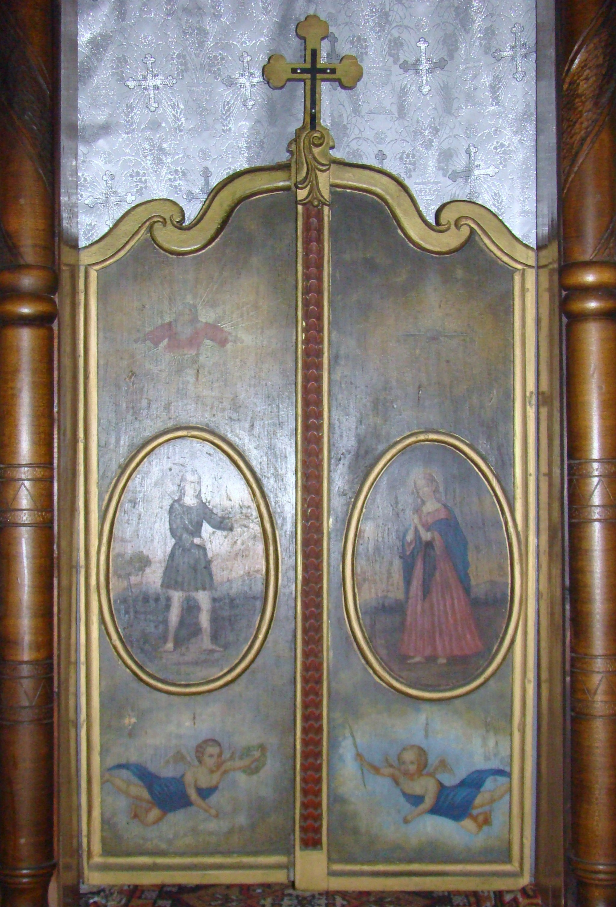 Wooden church in Filea de Jos, Cluj county